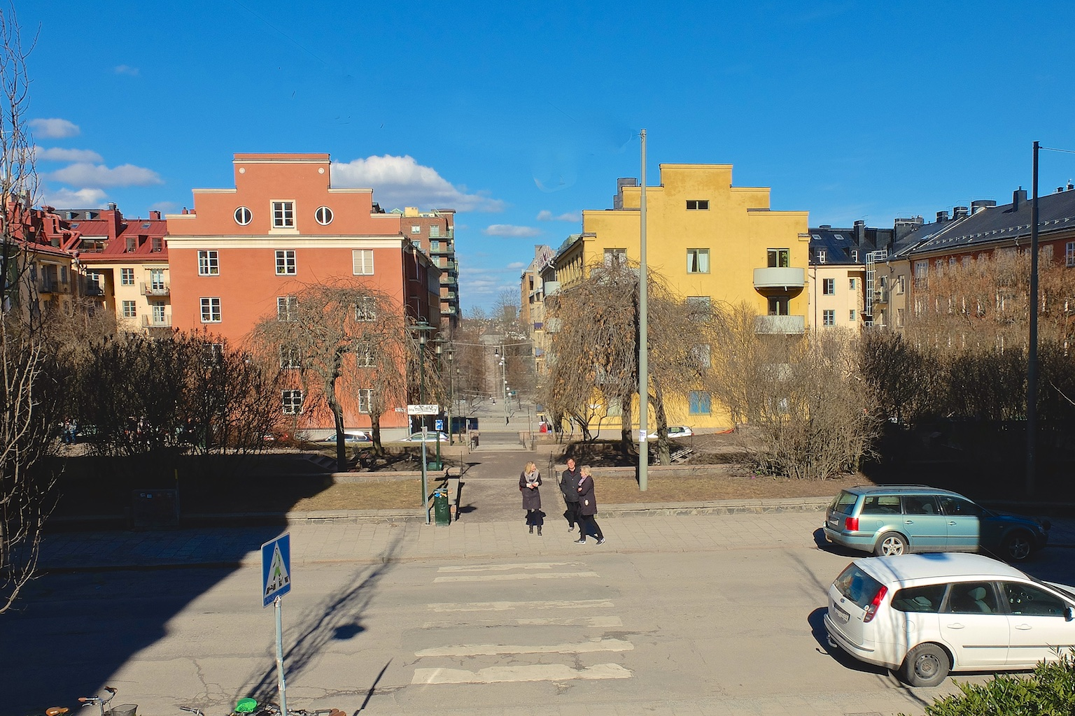 The Park is situated at Klippgatan